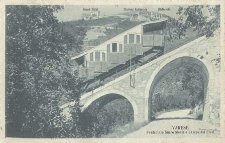 Varese - Sacro Monte funicular 2